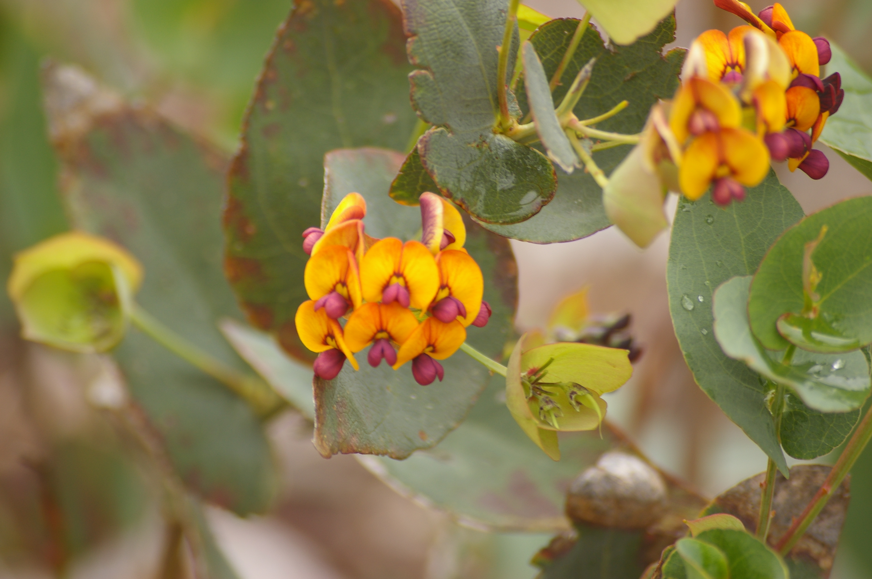 Taken in the Monadnocks Conservation reserve near the bibbulmun track where it crosses the upper reaches of the Canning river Daviesia cordata